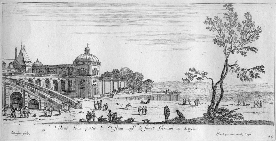 Etching named Veue d'un partie du Chasteau neuf de Sainct Germain en Laye